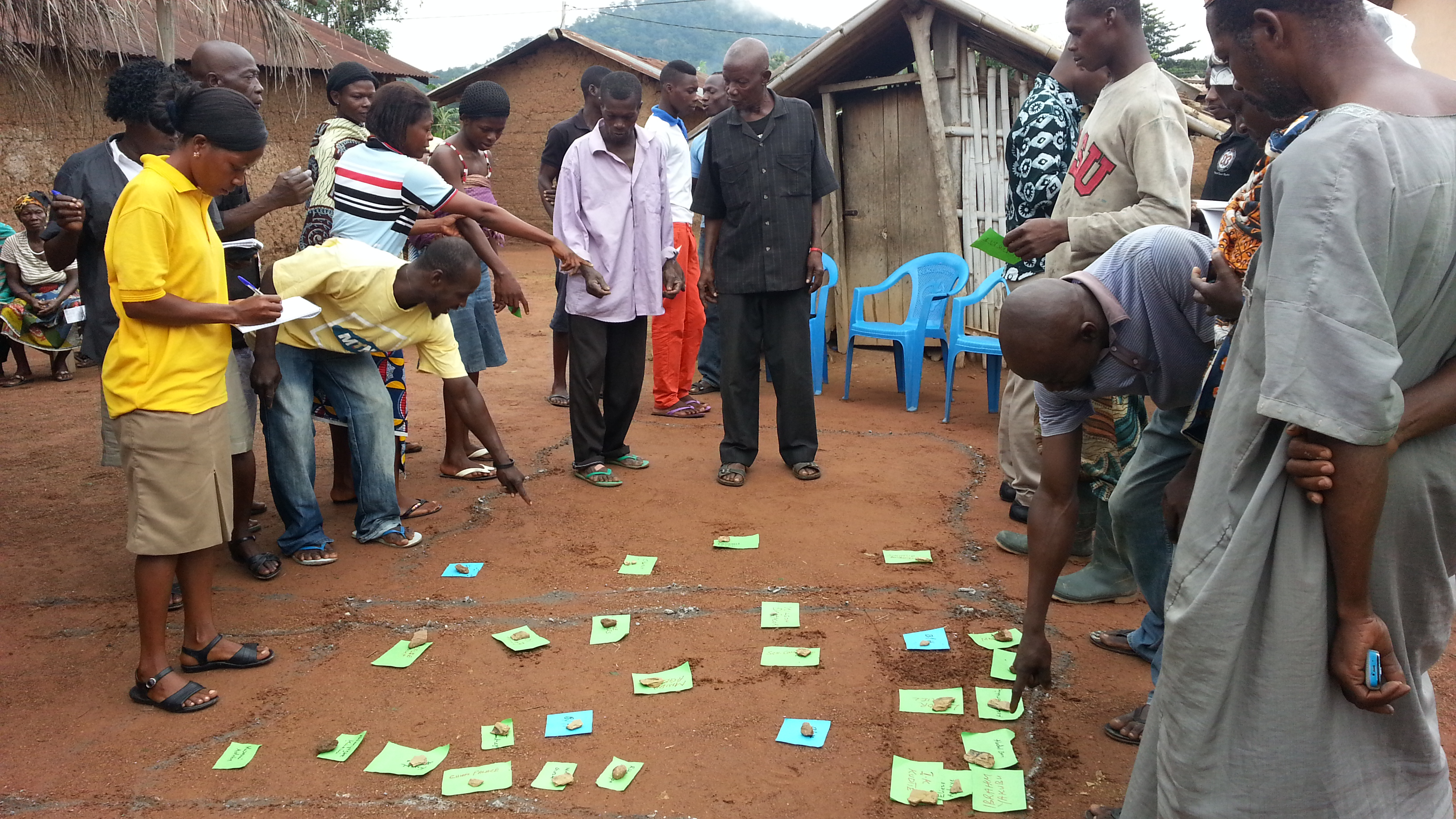 The picture was taken on 27th August 2014 in a community called Attakrom in the Volta Region of Ghana during a CLTS triggering process. The scene depicts community members busily drawing the community map of defecation under the guidance of Environmental Health Assistants (EHAs). The blue coloured papers are showing landmarks (palace, schools, churches, sources of drinking water) while the light green coloured papers indicate households. Photo provided by: Jesse Coffie Danku Snr. Advisor, WASH SNV Netherlands Development Organisation No. 10 Maseru Street, East Legon, Accra Ghana